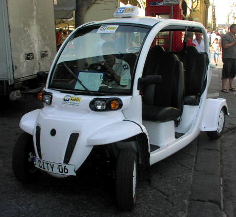 Chrysler GEM (Electrical Taxi)